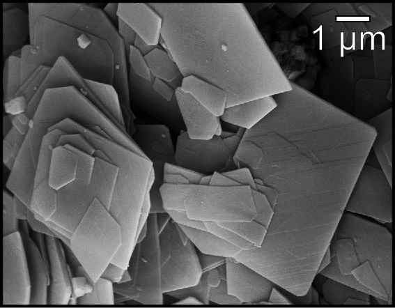 Hydromagnesite as seen using scanning electron microscopy. Sample was collected from Atlin, British Columbia, Canada